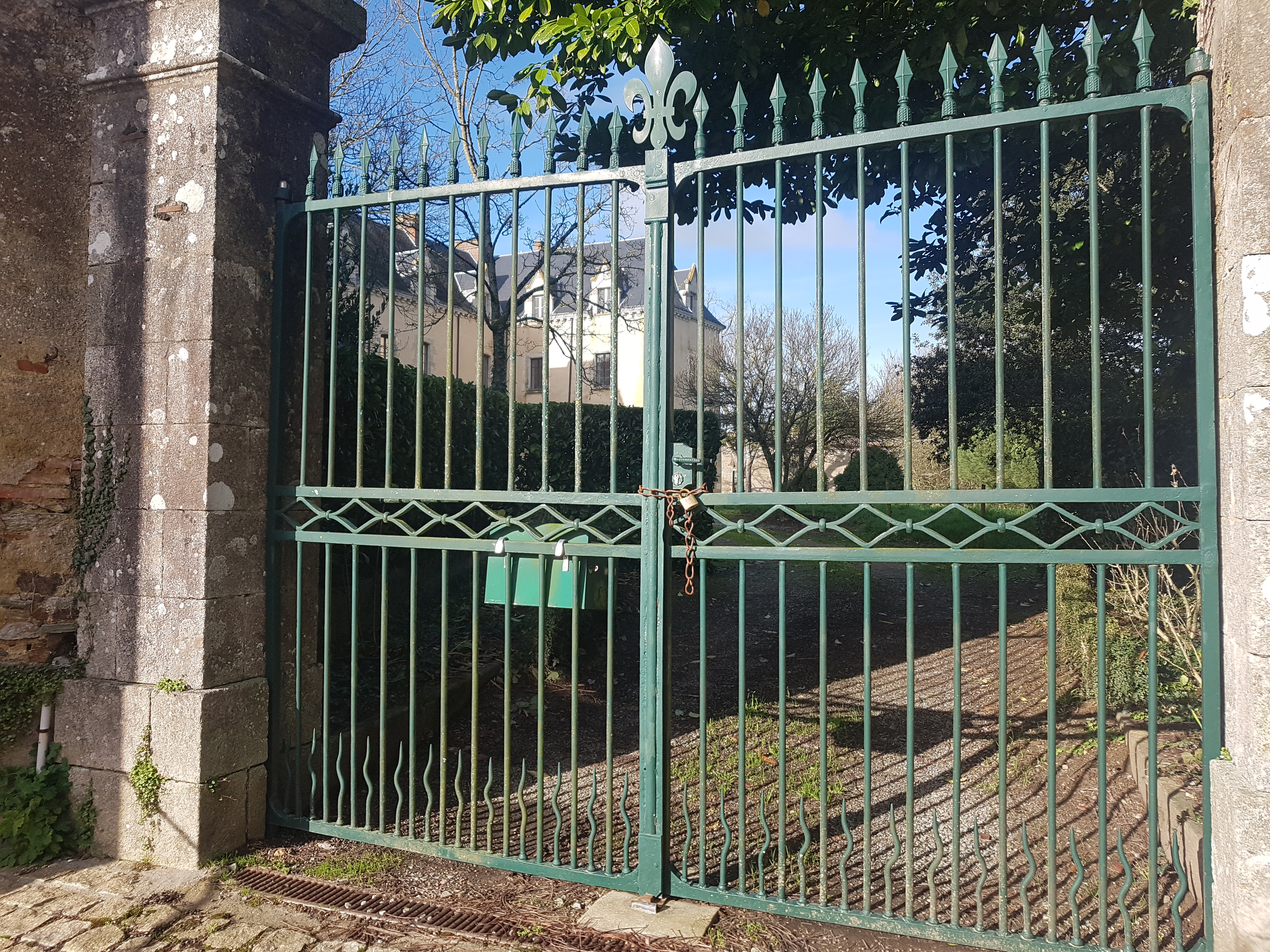 Château de la Haute-Cour, Réaumur